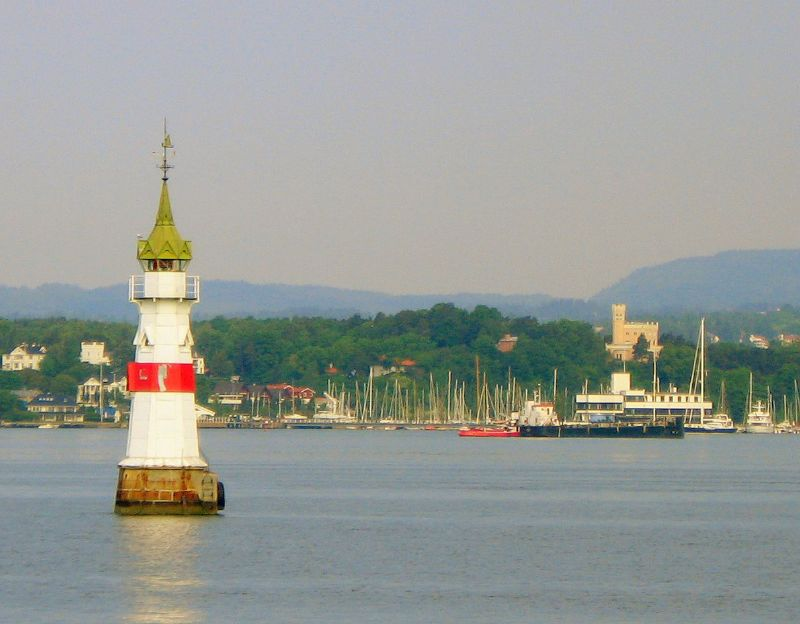 Kavringen lighthouse in the Oslo fjord